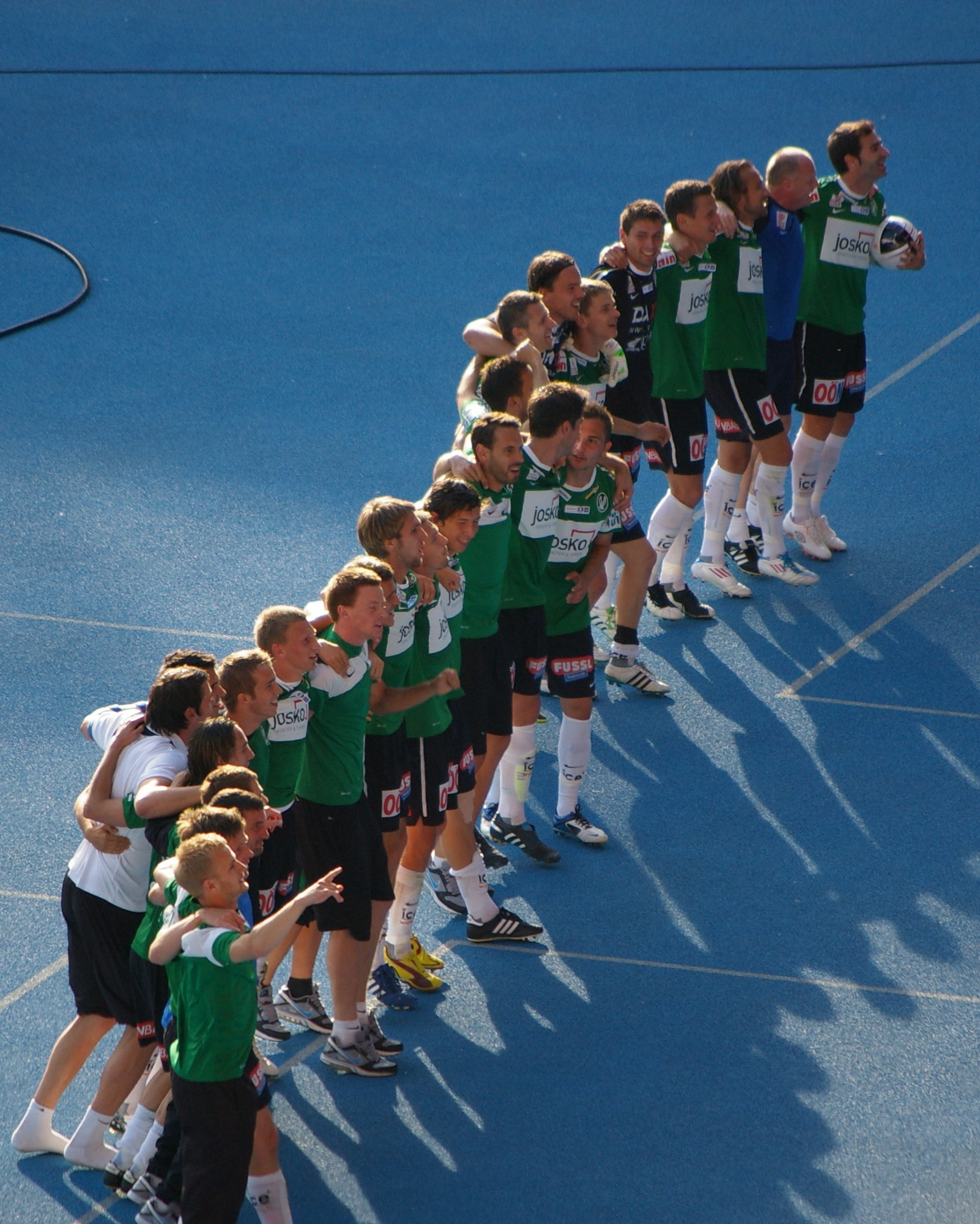 Cup final winnerSV Ried